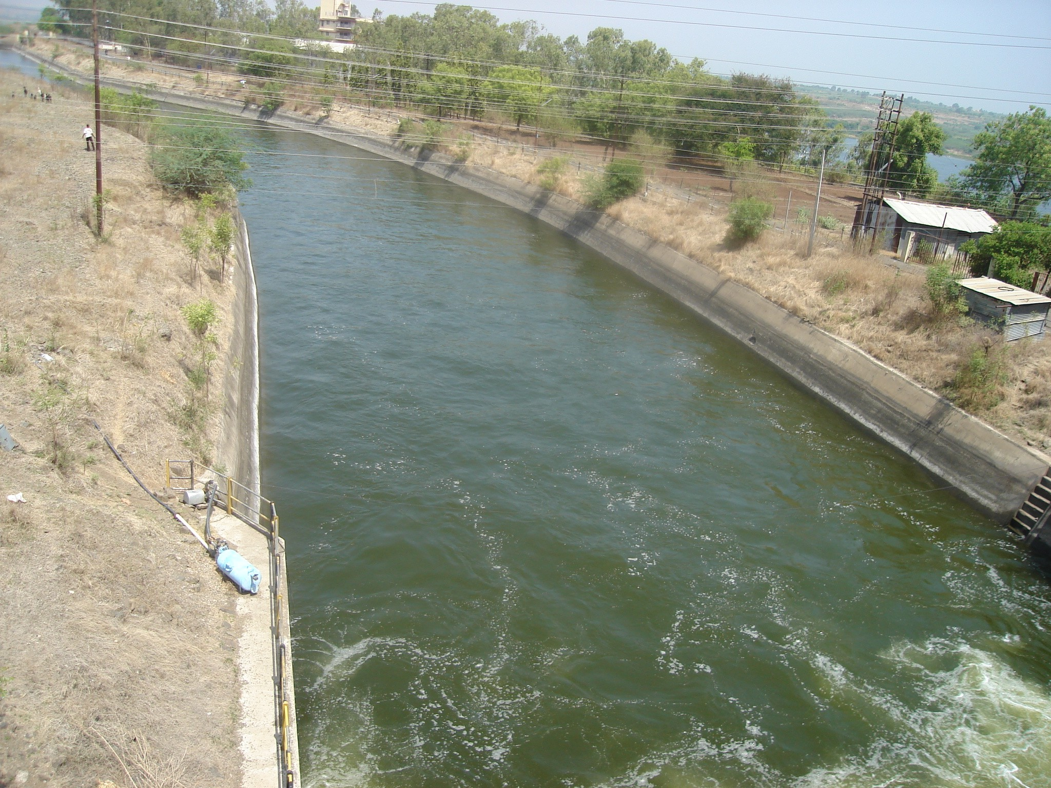 Irrigation Canal taking off from the Bhima Dam